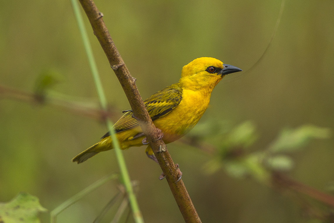 An Orange Weaver (Ploceus aurantius) in the near of the Ankasa Conservation Area (Ghana)